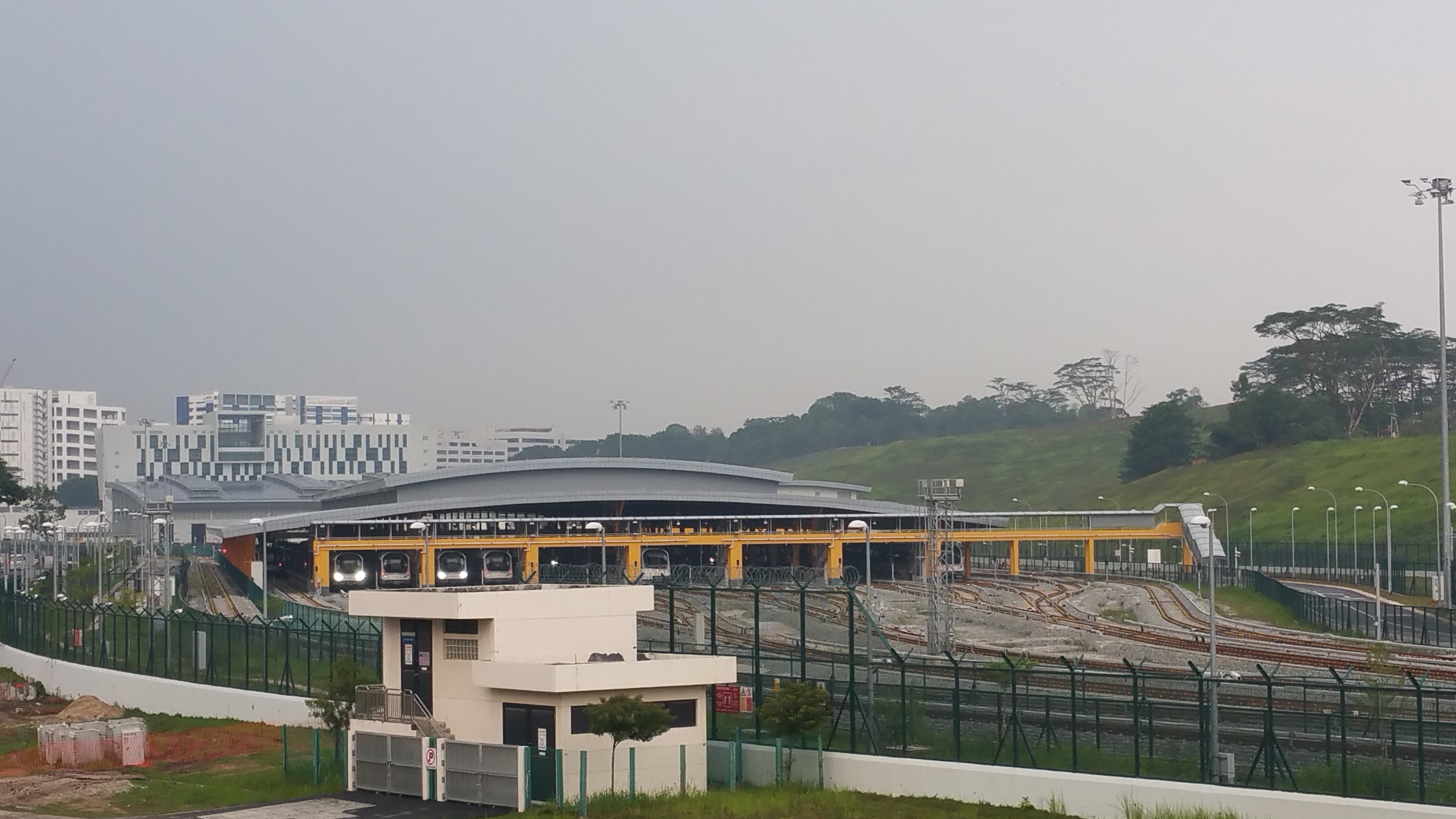 View across the Downtown Line Gali Batu MRT Depot in November 2015.